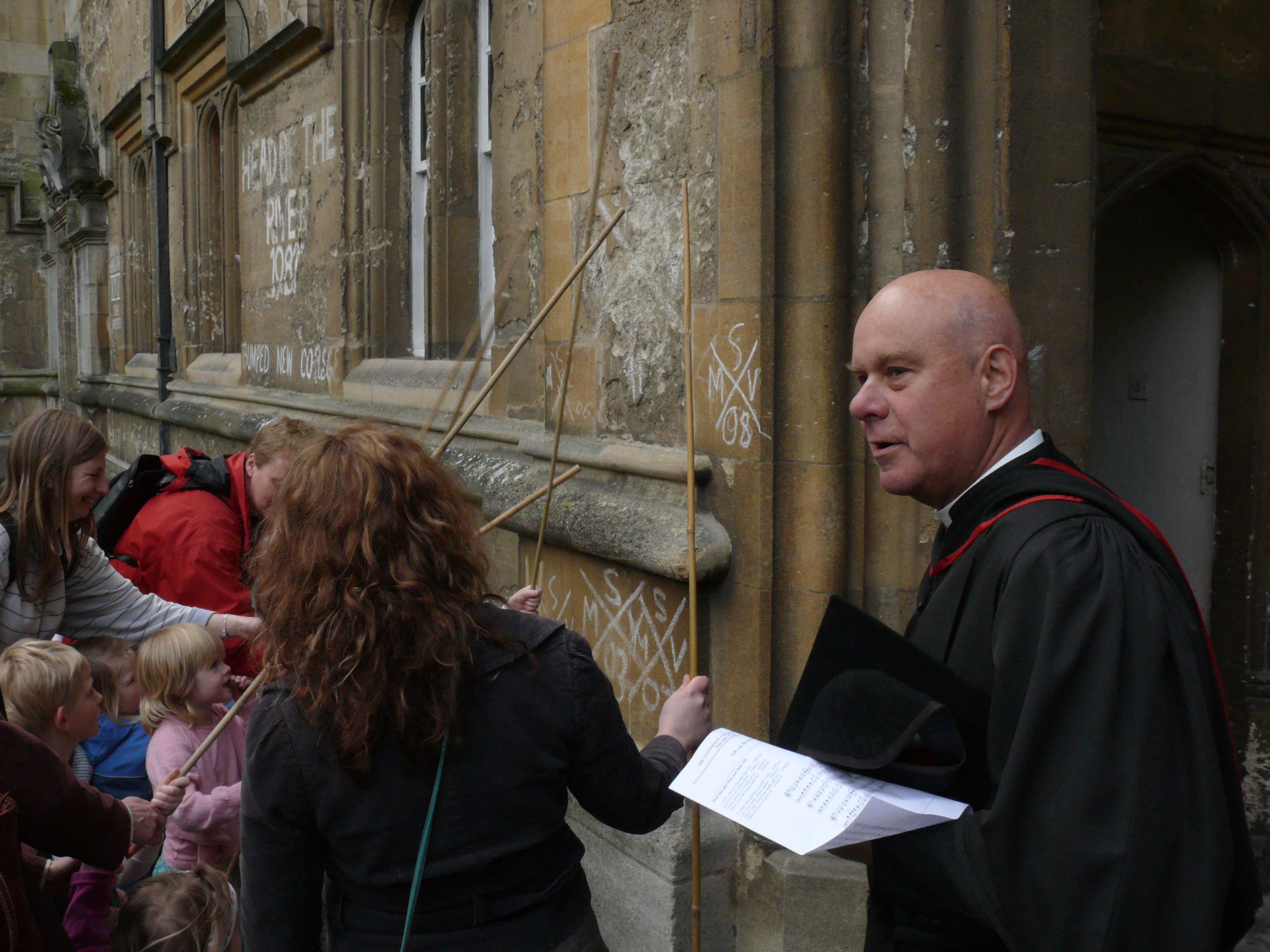 Beating the bounds of the parish of the University Church of St Mary the Virgin, May 1st 2008. Beating the final stone, at Oriel. Note small children.